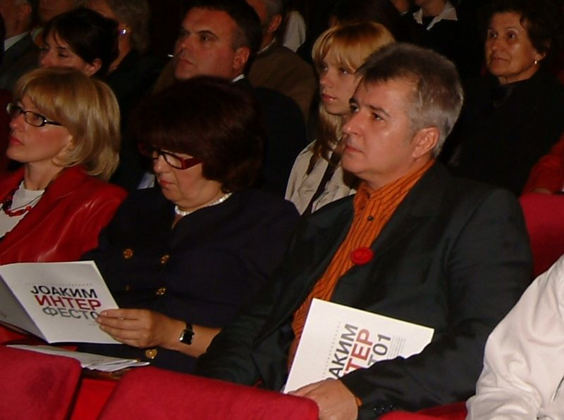 Image of Joe.